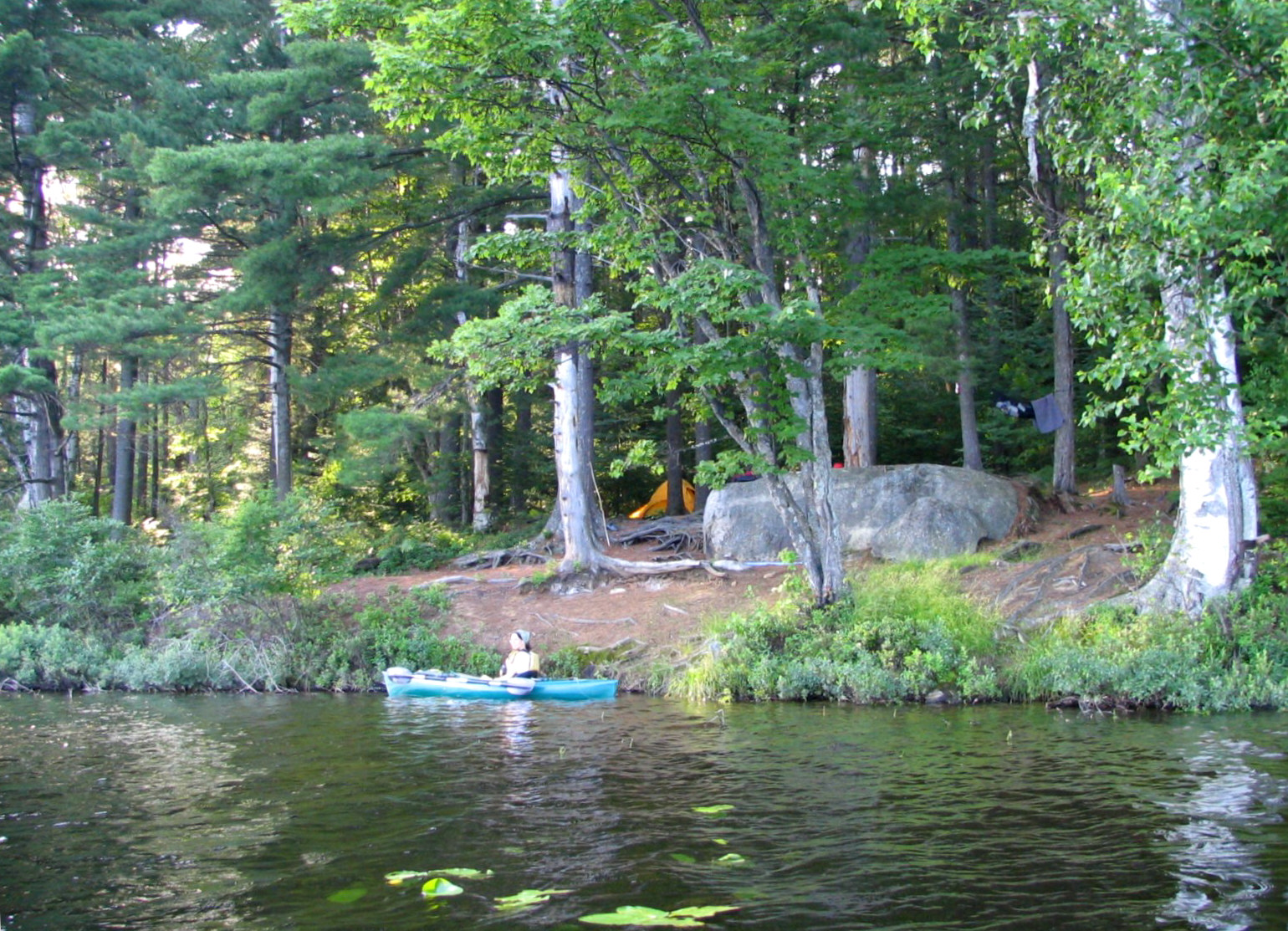 Canoe camping in the Saint Regis Canoe Area. Taken by User:Mwanner, 19 July, 2006.